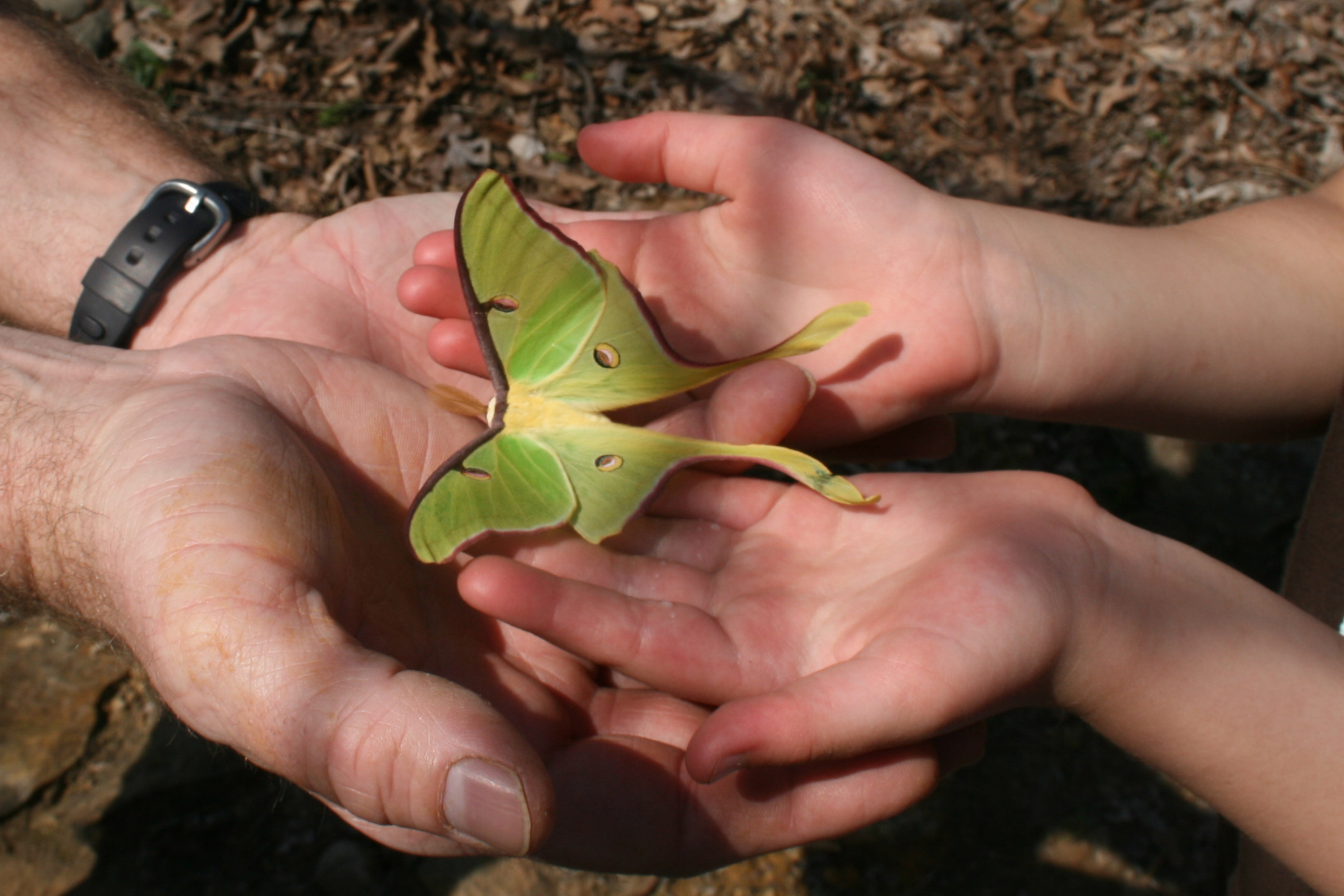 We found this fabled Luna Moth while hiking near Tulsa, Oklahoma. It was either on or near the trail. The children found it and this picture captures the moment we tried to examine it and remove it from the trail. It must have just emerged from its cocoon and didn't seem capable of flying.